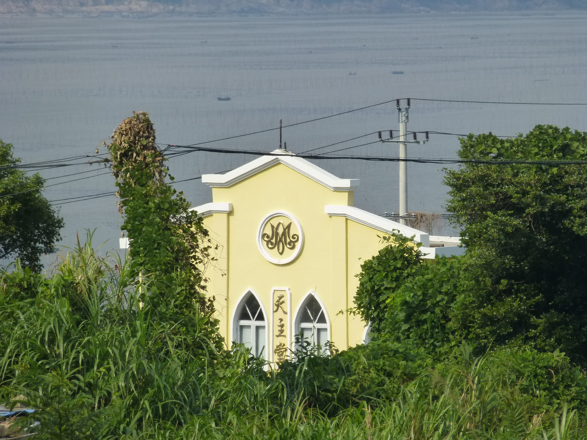 A Catholic church on the coastal road near Damen Shan (大门山) peninsula. Chixi Town, Cangnan County, Zhejiang, China.